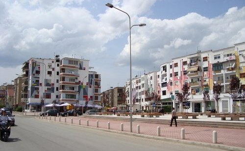 This is Xhamllik in middle of the day in summer.